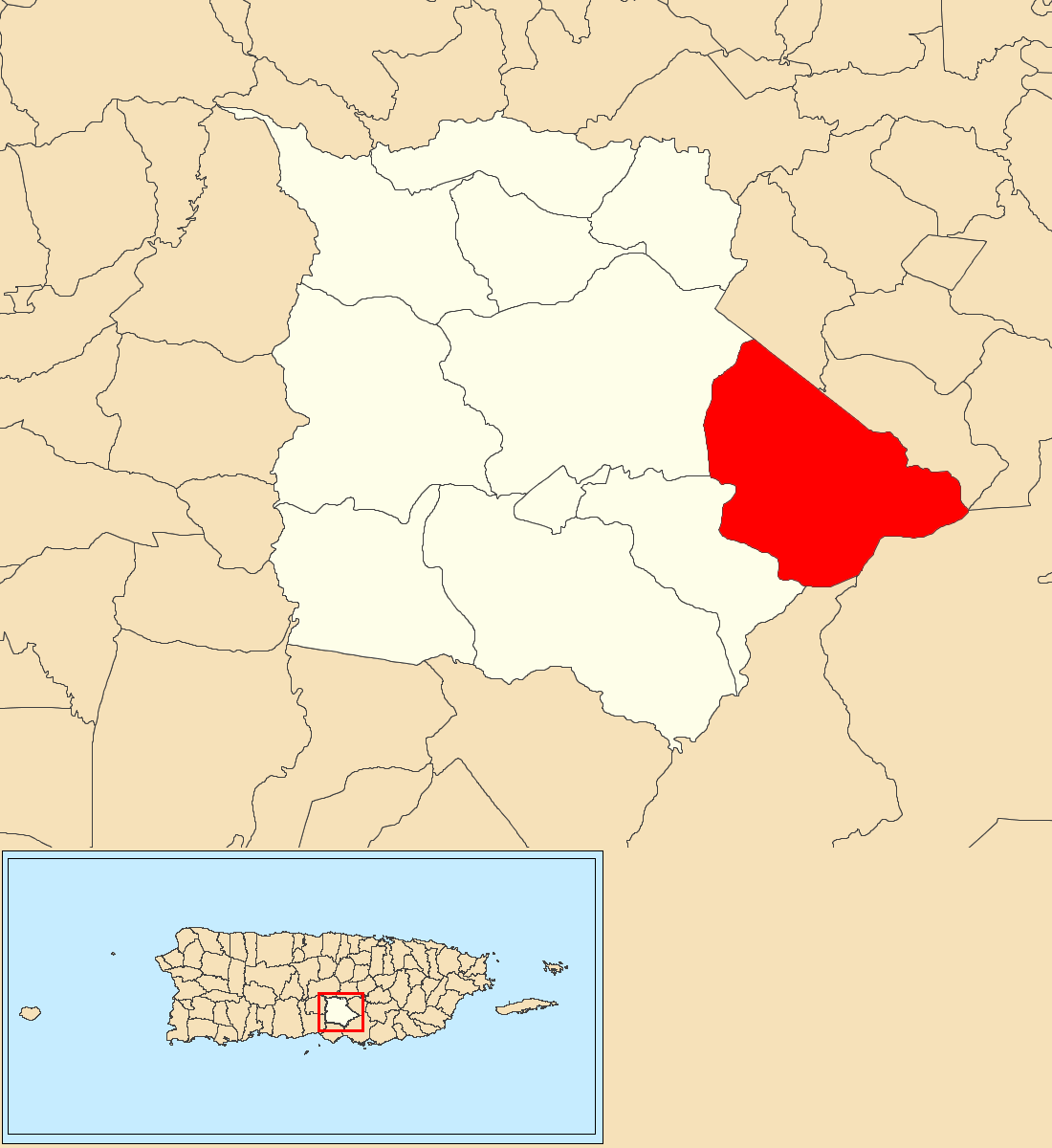 Cuyón, Coamo, Puerto Rico, locator map